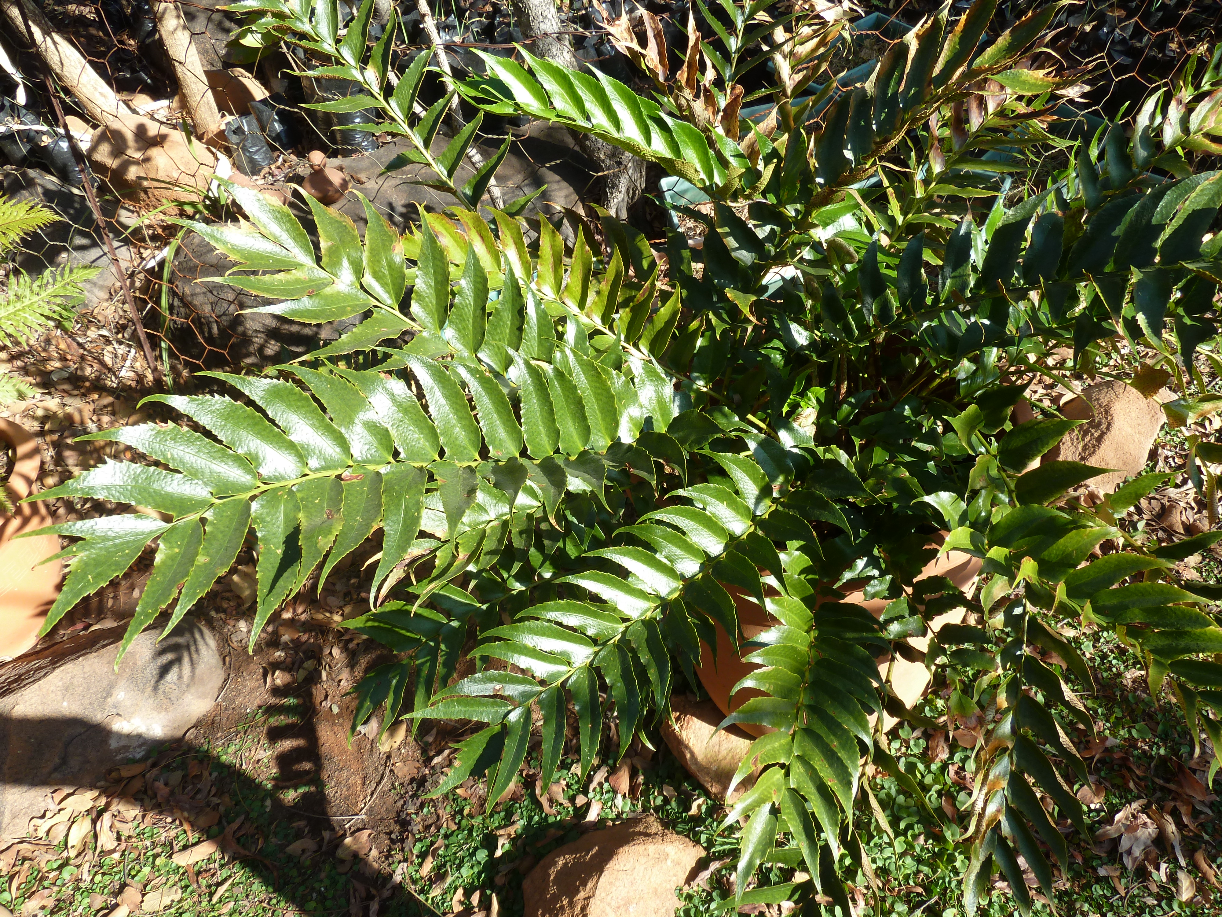 Holly fern as pot plant, Waterberg, South Africa